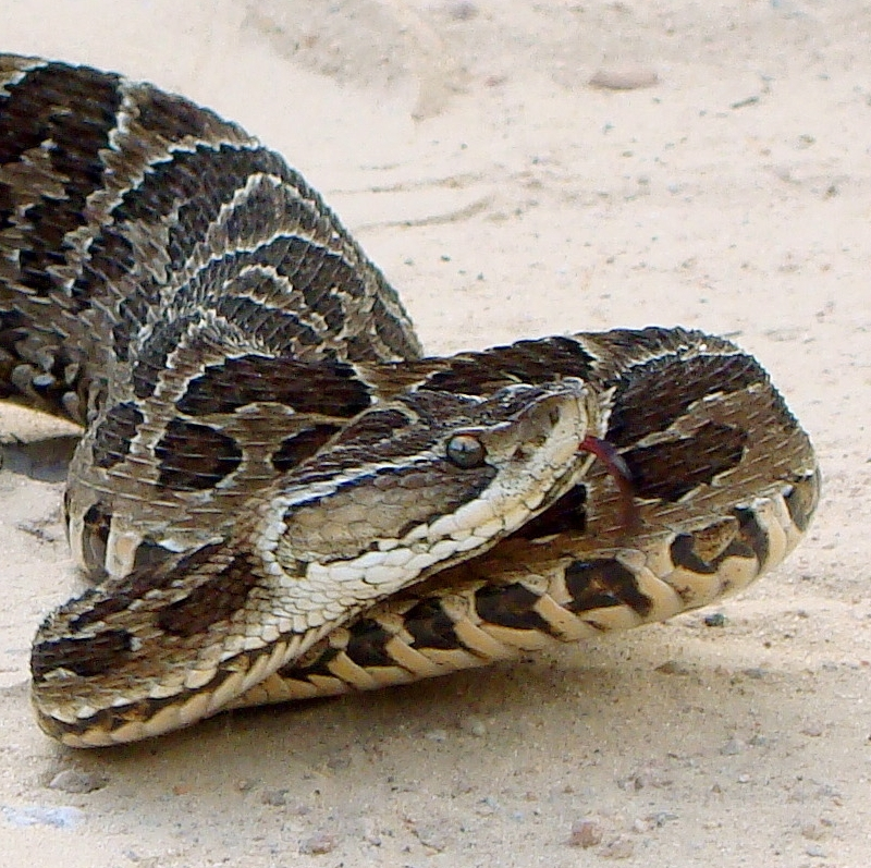 Bothrops alternatus photographed in Rio Grande do Sul, Brazil, in January 2010.